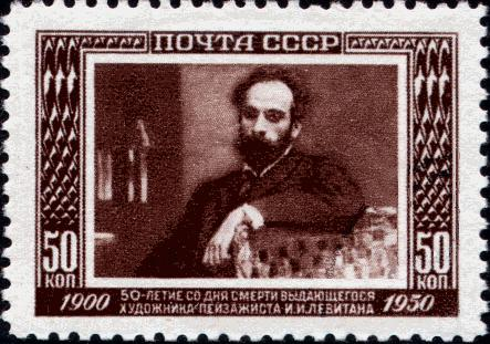 Issak Ilich Levitan on former USSR stamp. CPA #1568